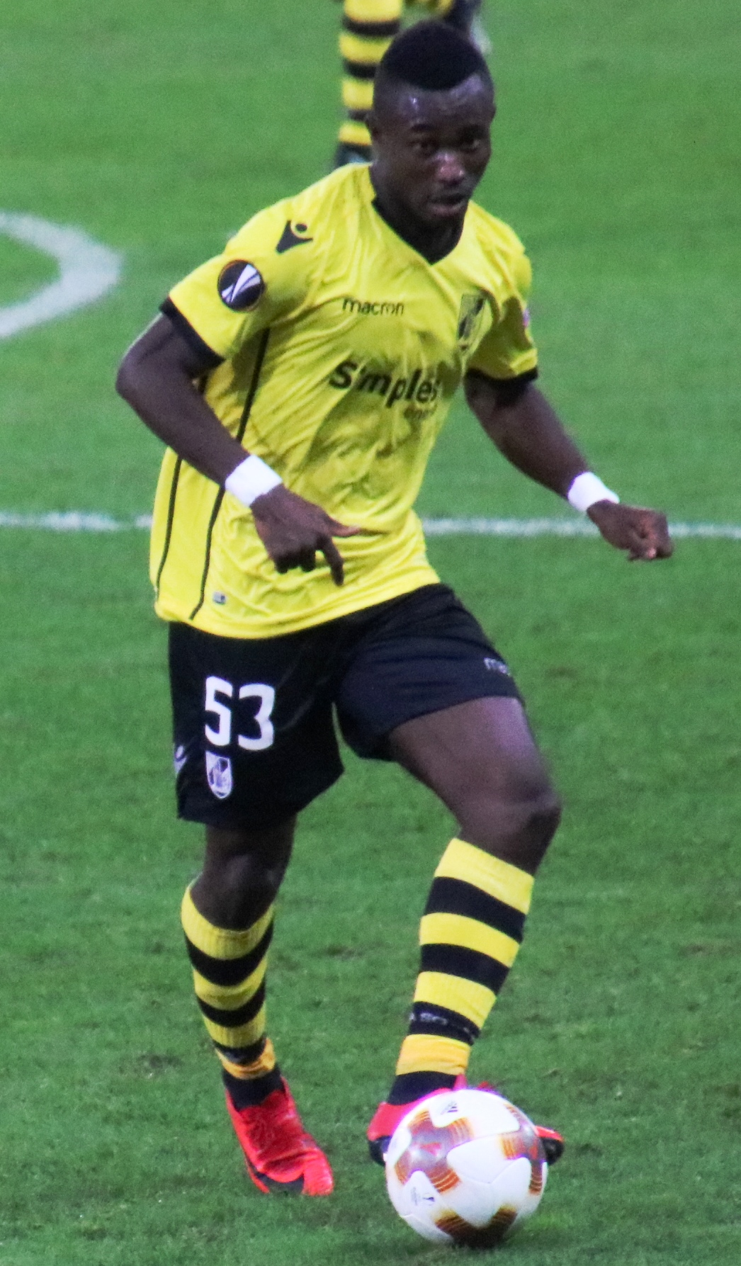 uefa euro league group stage group I 5th round